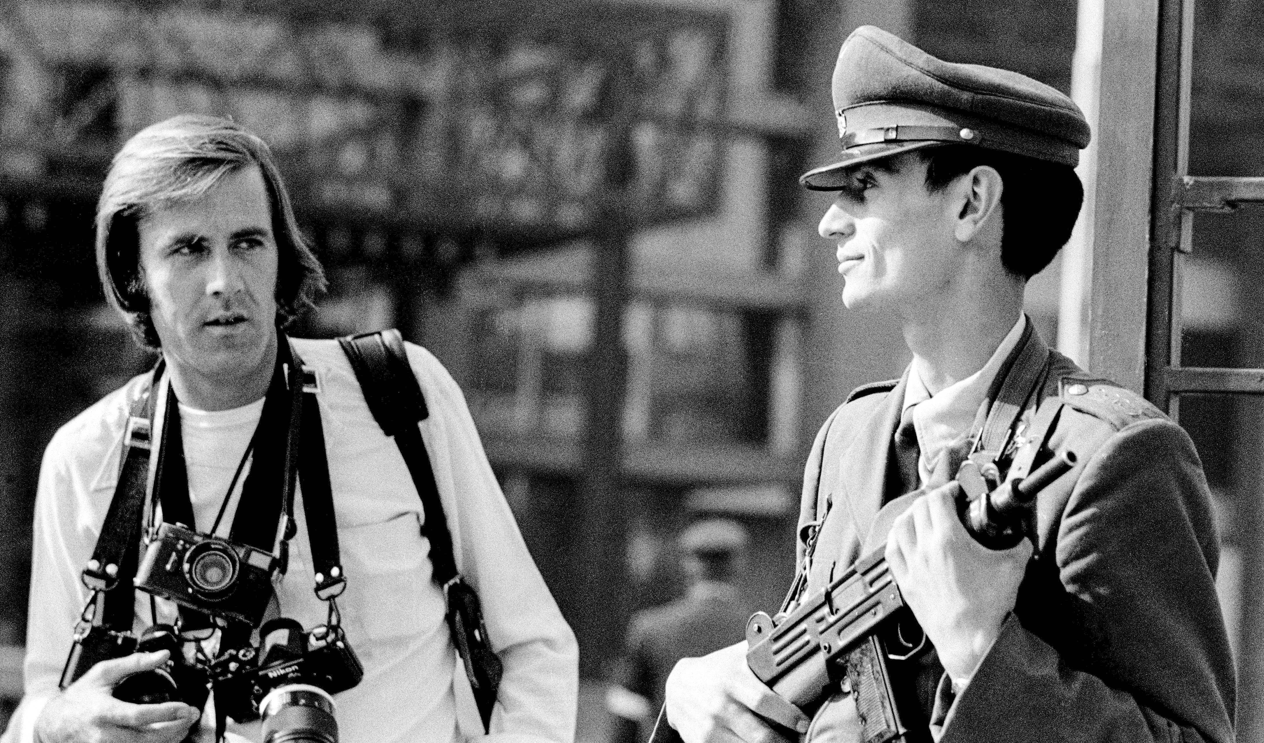 Chas Gerretsen & Caribinero